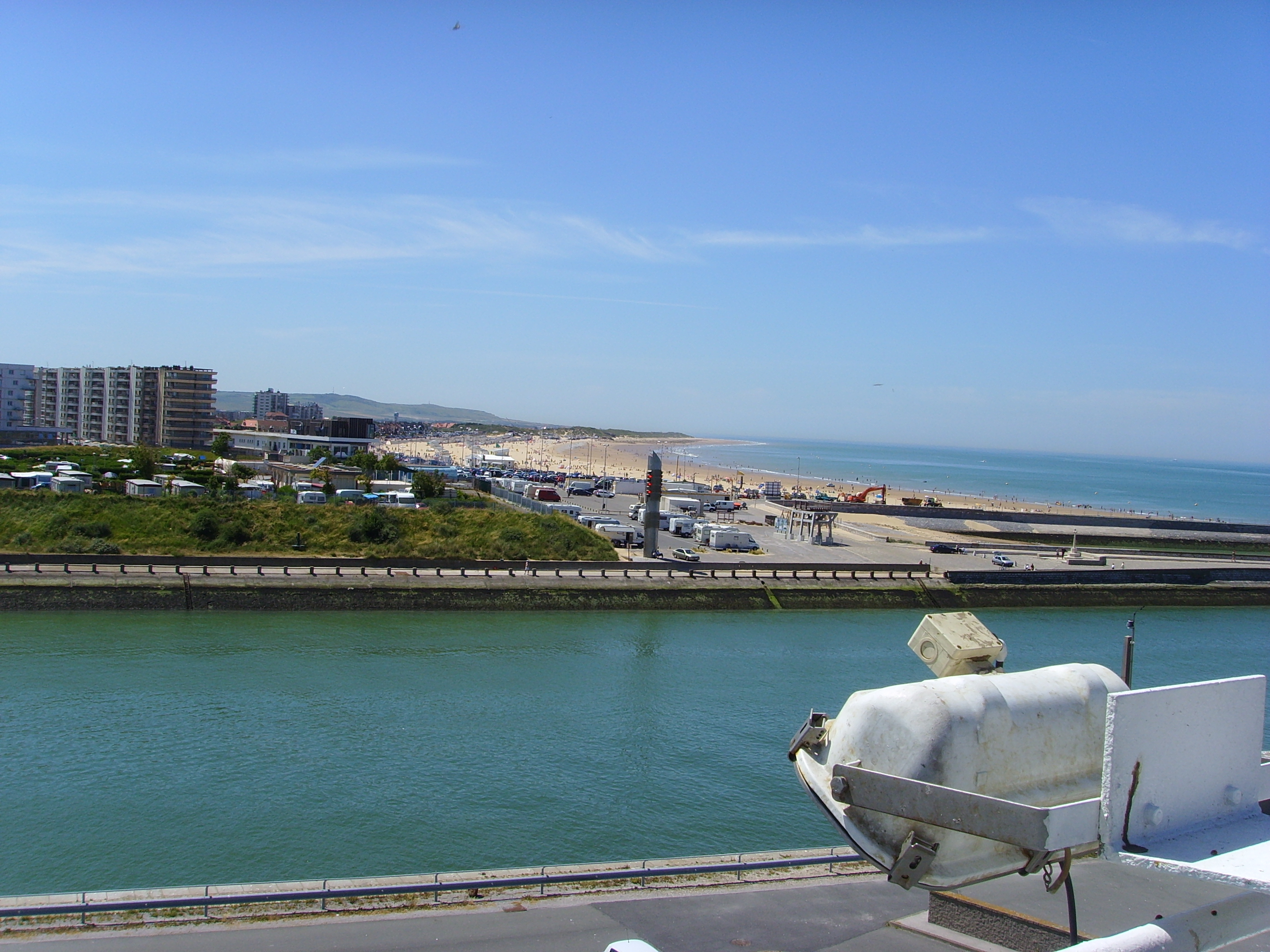 The beach of Calais from a ferry